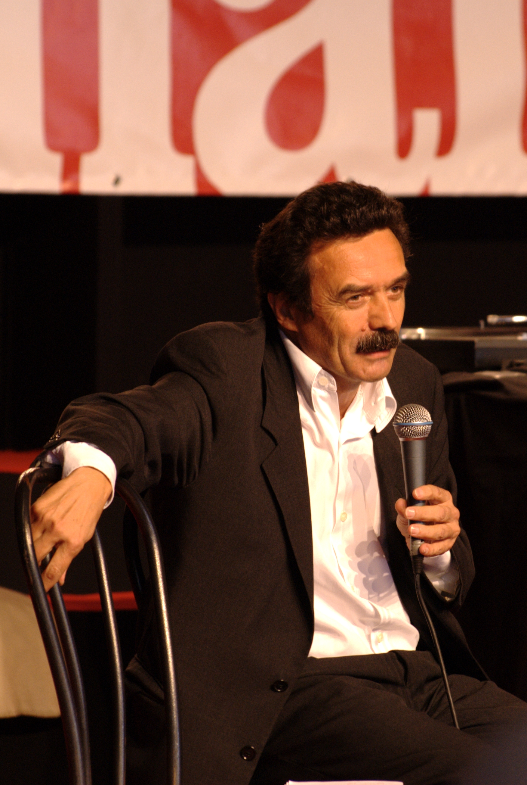 Edwy Plenel at the Fête de l'Humanité 2008 talking about medias